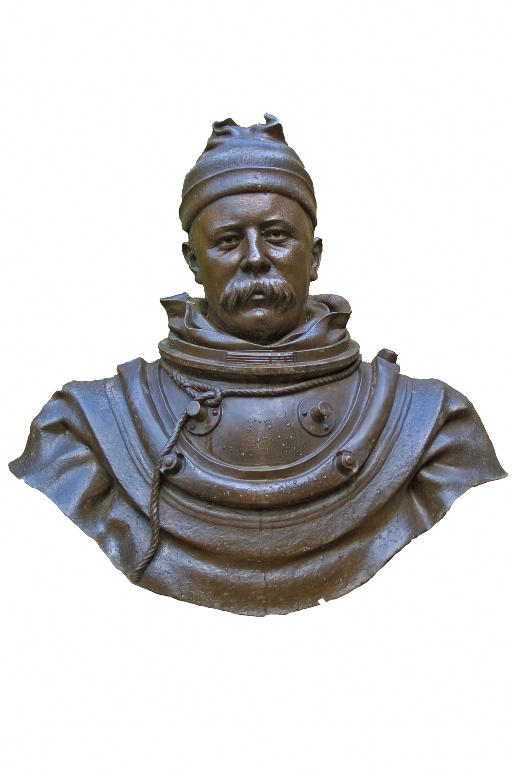 William Walker's Statue in the Cathedral grounds